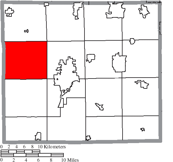 Map of the municipal and township boundaries of Wayne County, Ohio, United States, as of the 2000 census, with the location of Chester Township highlighted. Township borders are shown only in unincorporated areas in order to differentiate incorporated and unincorporated areas more clearly.